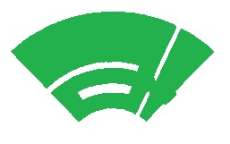 Mihama Mie chapter